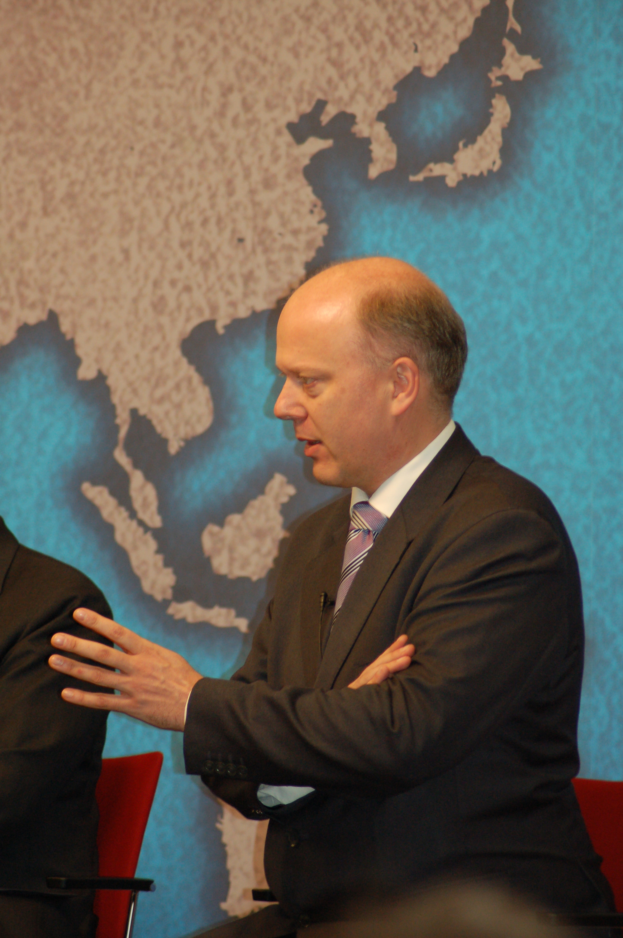 15 January 2010